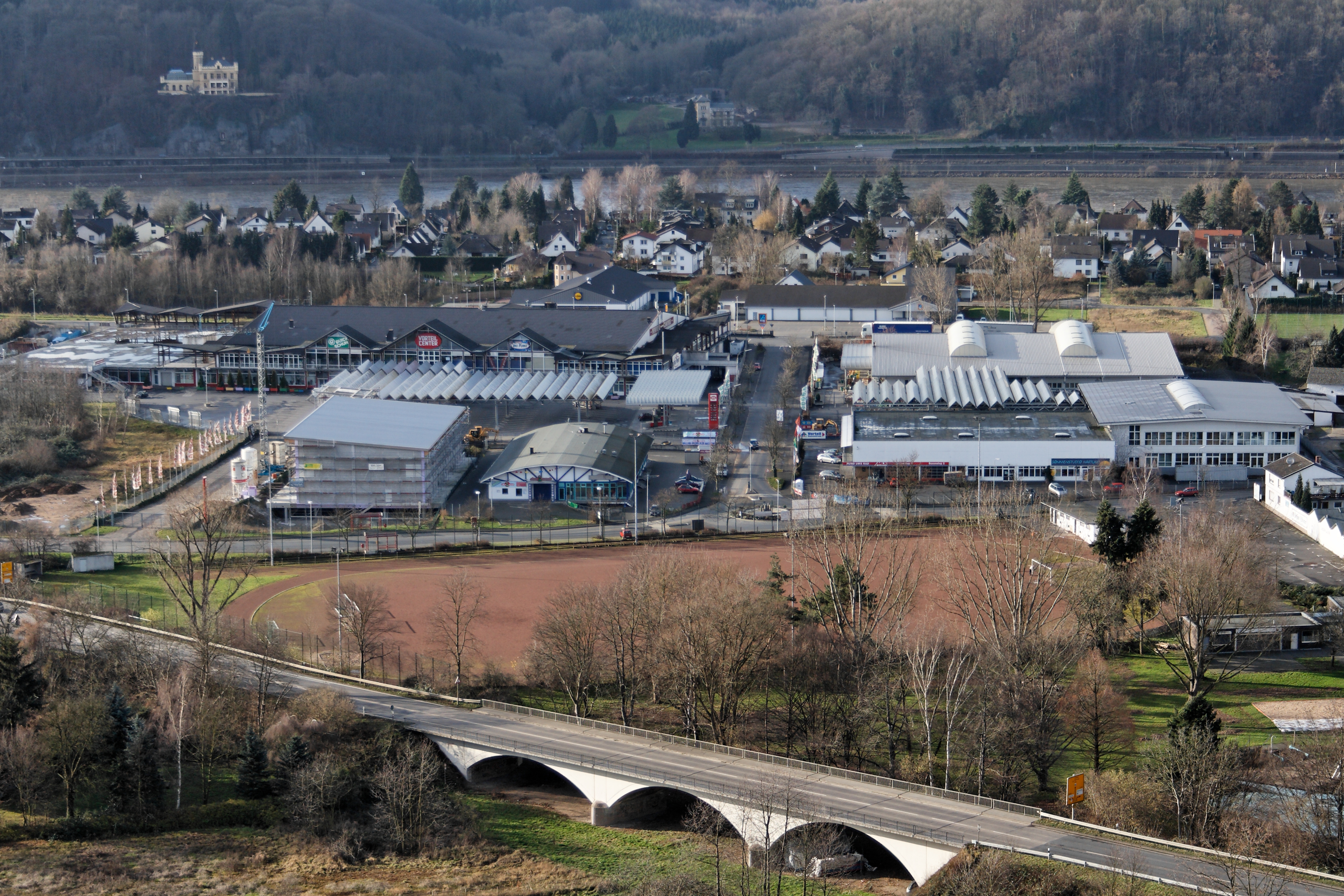 This image shows the commercial area in Unkel, Germany.